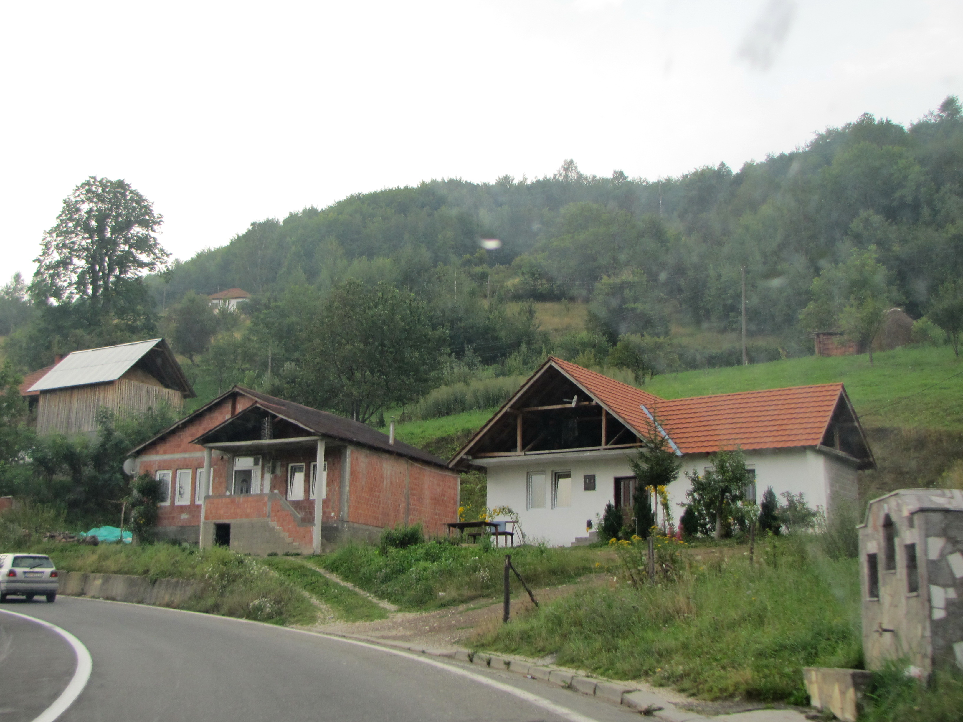 Murovce, part of Kožlje village (Novi Pazar, SW Serbia).